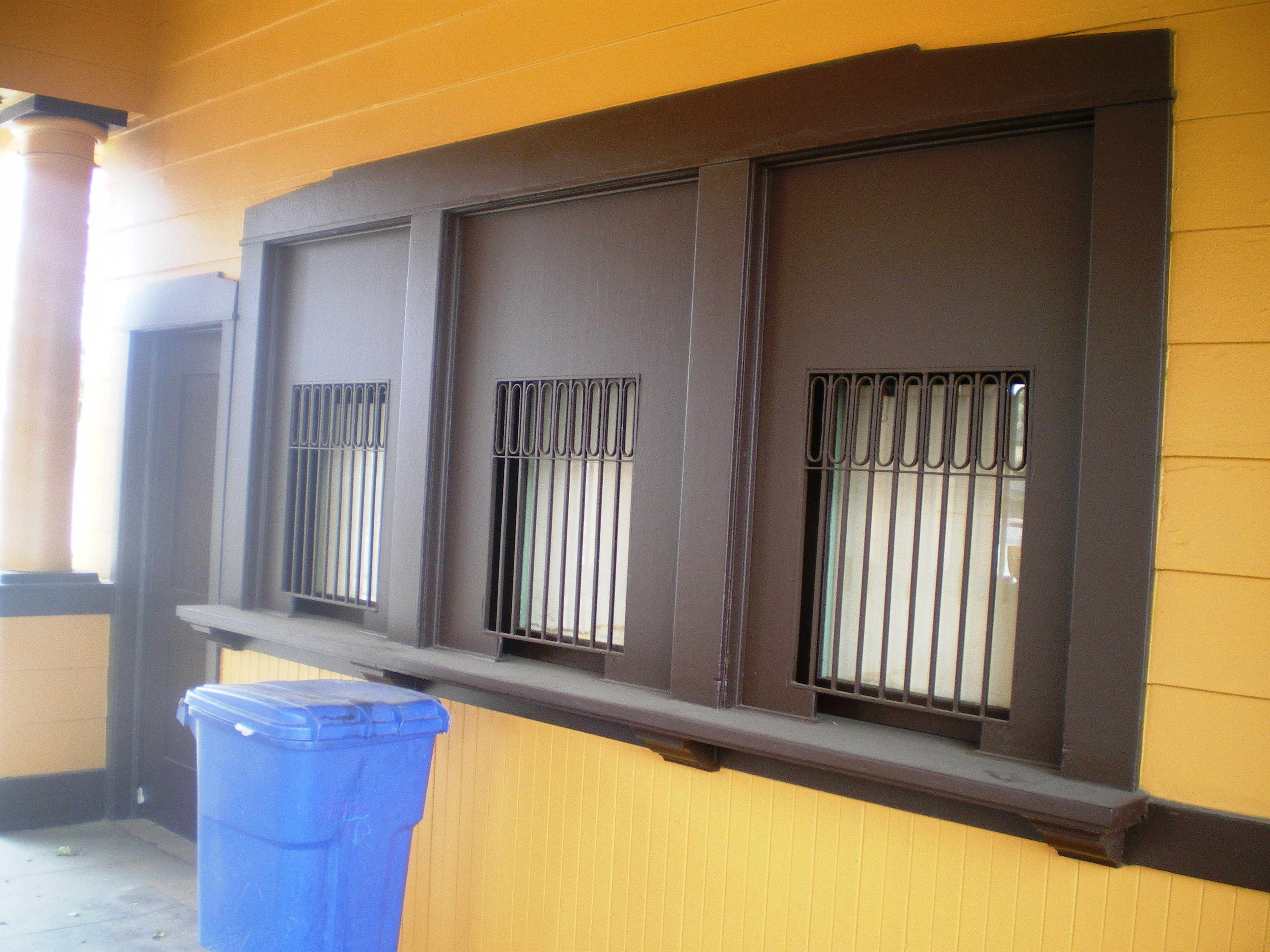 Watts Station (ticket windows), 1686 E. 103rd St., Los Angeles, California, built 1904, listed in the National Register of Historic Places